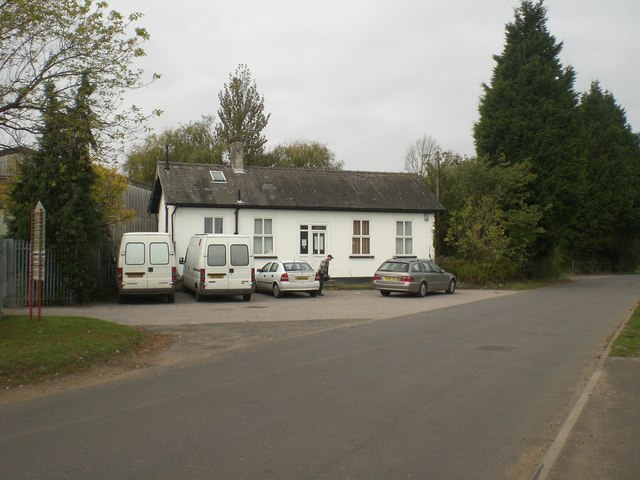 Converted station, Roydon